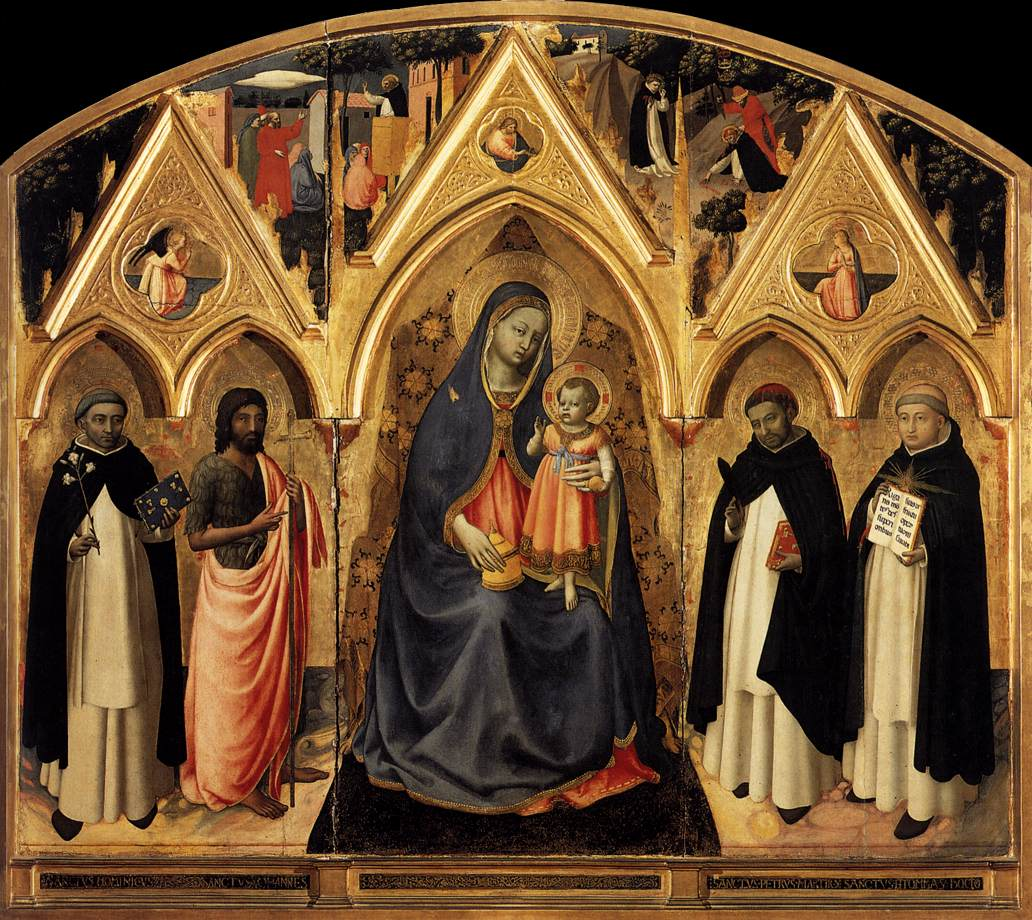 Virgin and Child, Sts Dominic and John the Baptist on the left and Sts Peter Martyr and Thomas Aquinas on the right, on the upper part scenes from the life of St Peter Martyr (Predication and Martyrdom), Angel of the Annunciation, God Father and Vergin Annunciate. Mary is holding an ampulla, with reference to Mary Magdalene's ampulla so to Jesus' passion.